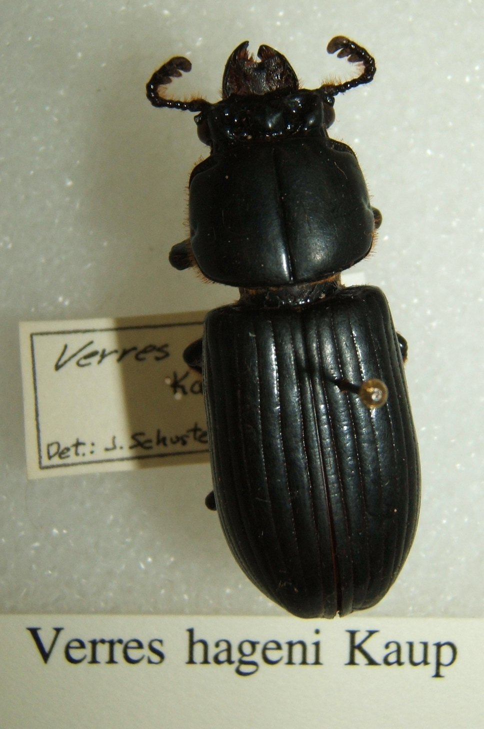 Verres hageni adult taken by Shawn Hanrahan at the Texas A&M University Insect Collection in College Station, Texas.